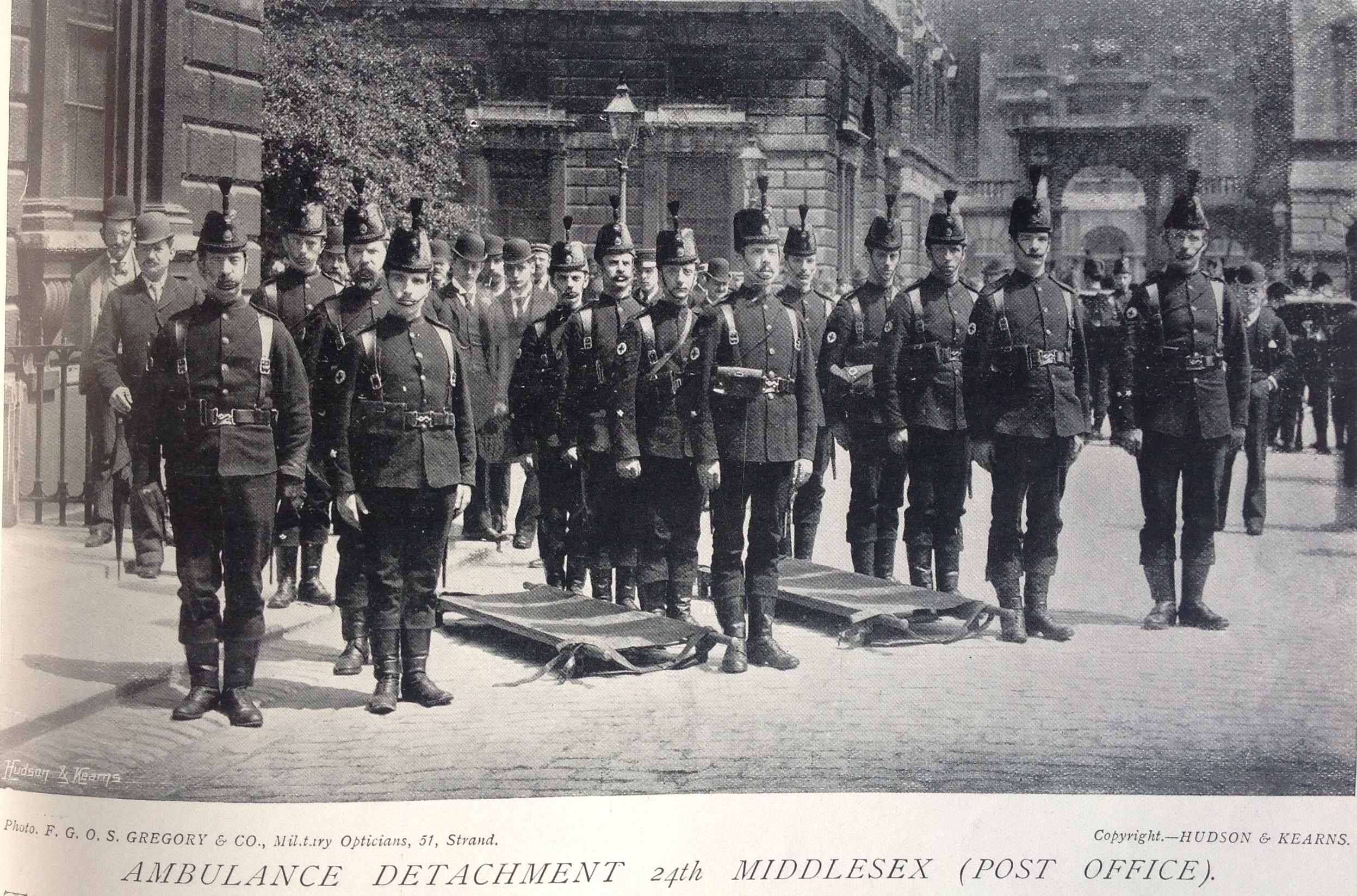 Stretcher bearer detachment of the 24th Middlesex Rifle Volunteers (Post Office Rifles), from the Navy and Army Illustrated 1897